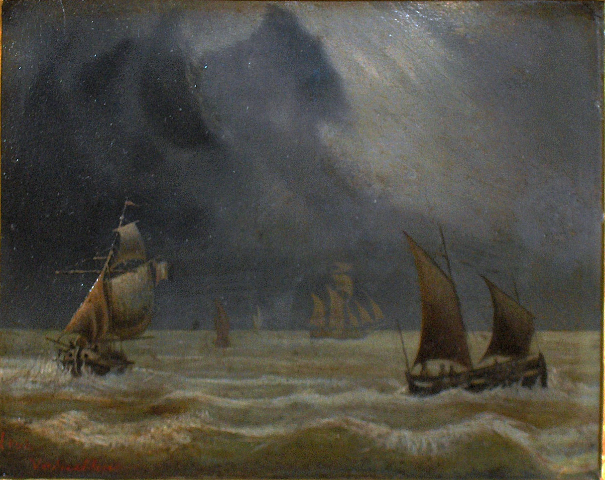 "Marine", oil on canvas (16 x 21 cm) by Louis Verboeckhoven (1802-1889); private collection